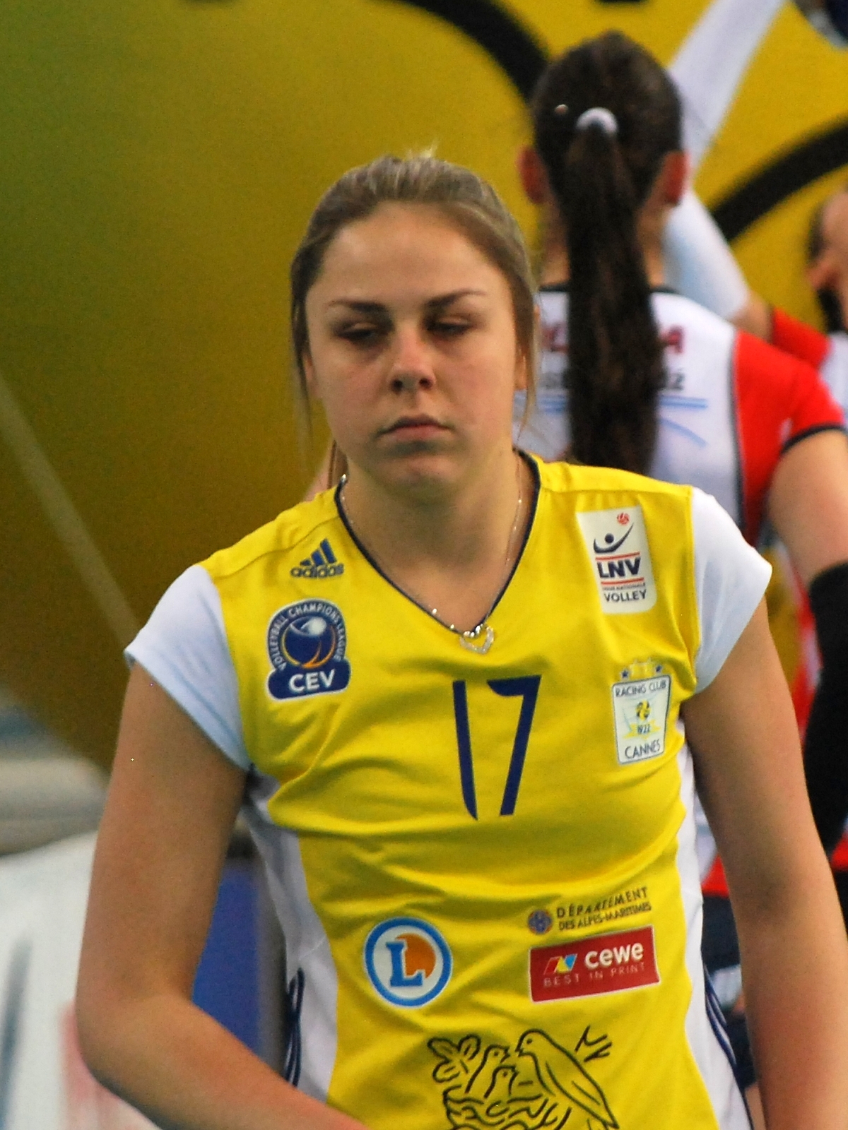 Gergana Dimitrova, volleyball player from Bulgaria